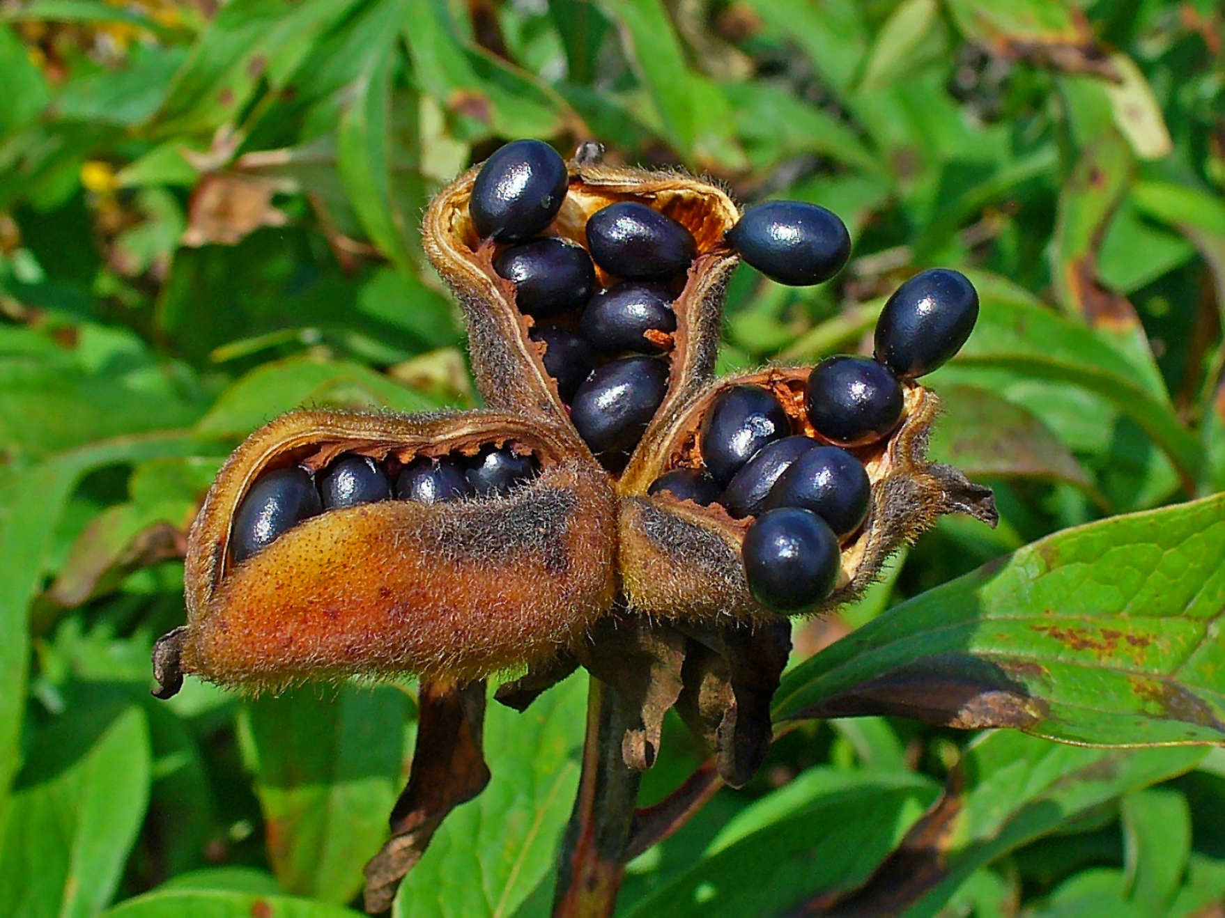 Paeonia officinalis, Paeoniaceae, European peony, Common peony, seeds.